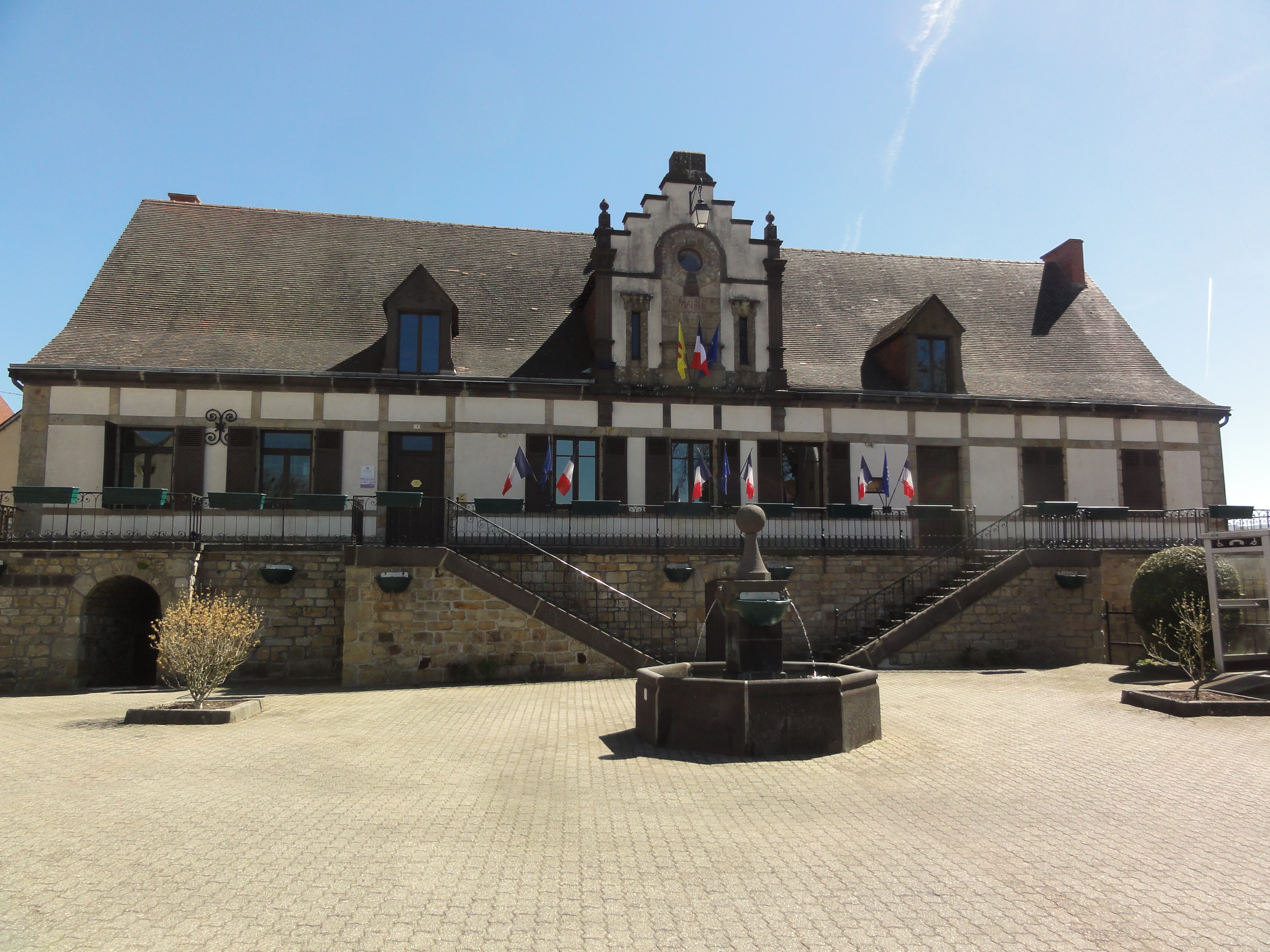 Pionsat (Puy-de-Dôme) mairie